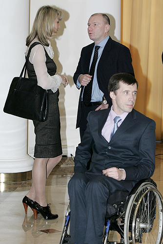 SOCHI. Before the beginning of the session of the Council for the Development of Physical Culture and Sport, Excellence in Sports, and the Preparation and Execution of the 2014 XXII Olympic Winter Games and XI Paralympic Winter Games in Sochi. Paralympic champion, Russian State Duma member Mikhail Terentyev (front), Deputy Speaker of the Russian State Duma, Olympic champion Svetlana Zhurova and president of the “Interros” company Vladimir Potanin.